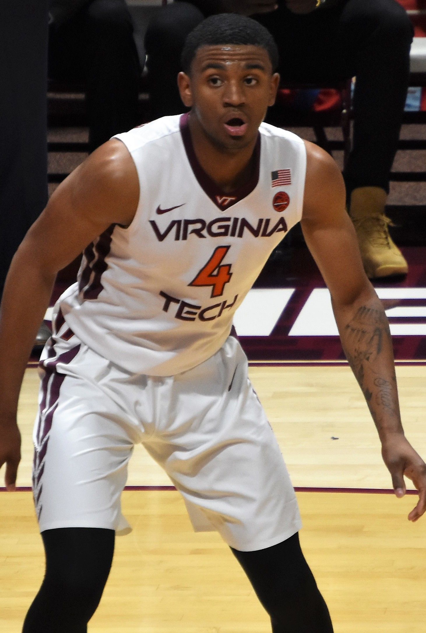 Nickel Alexander Walker on the floor for the Hokies at Cassell Coliseum